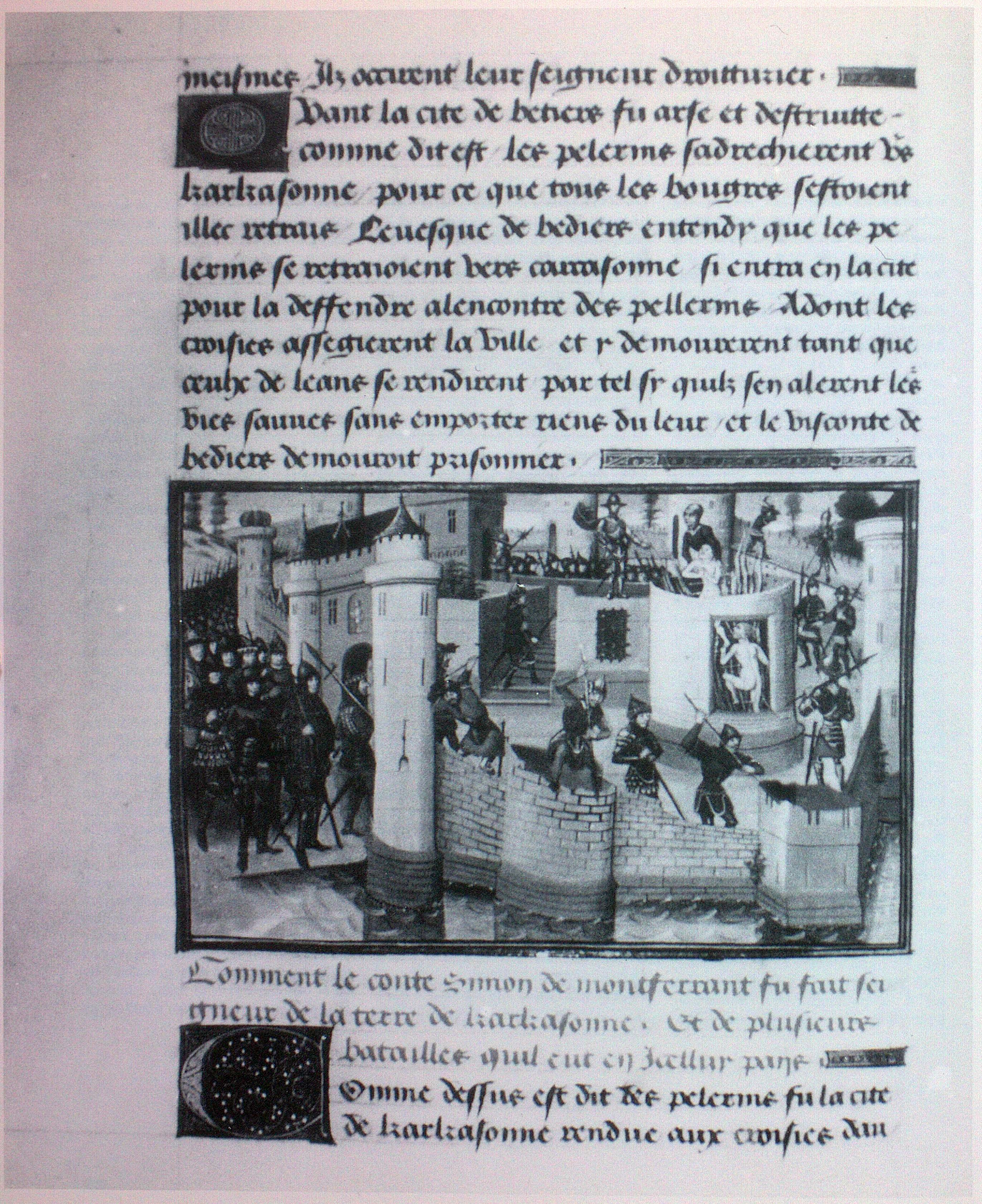 A page of David Aubert’s „Croniques abregies“ (Chroniques abrégées) in the manuscript Paris, Bibliothèque de l’Arsenal, 5090, fol. 261v. The miniature shows the capture of the town of Carcassonne by the Crusaders in 1209.